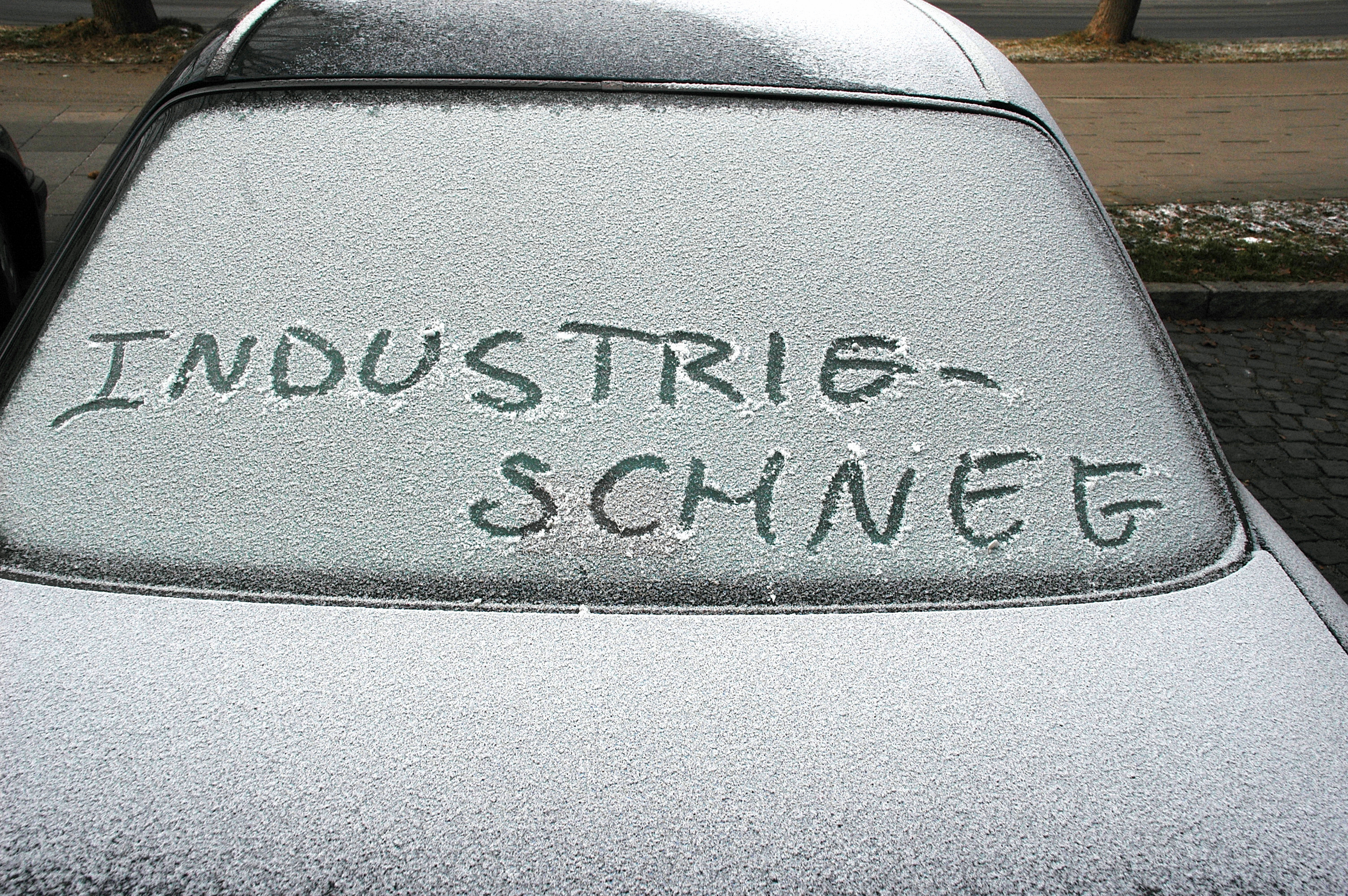 Industrial Snow